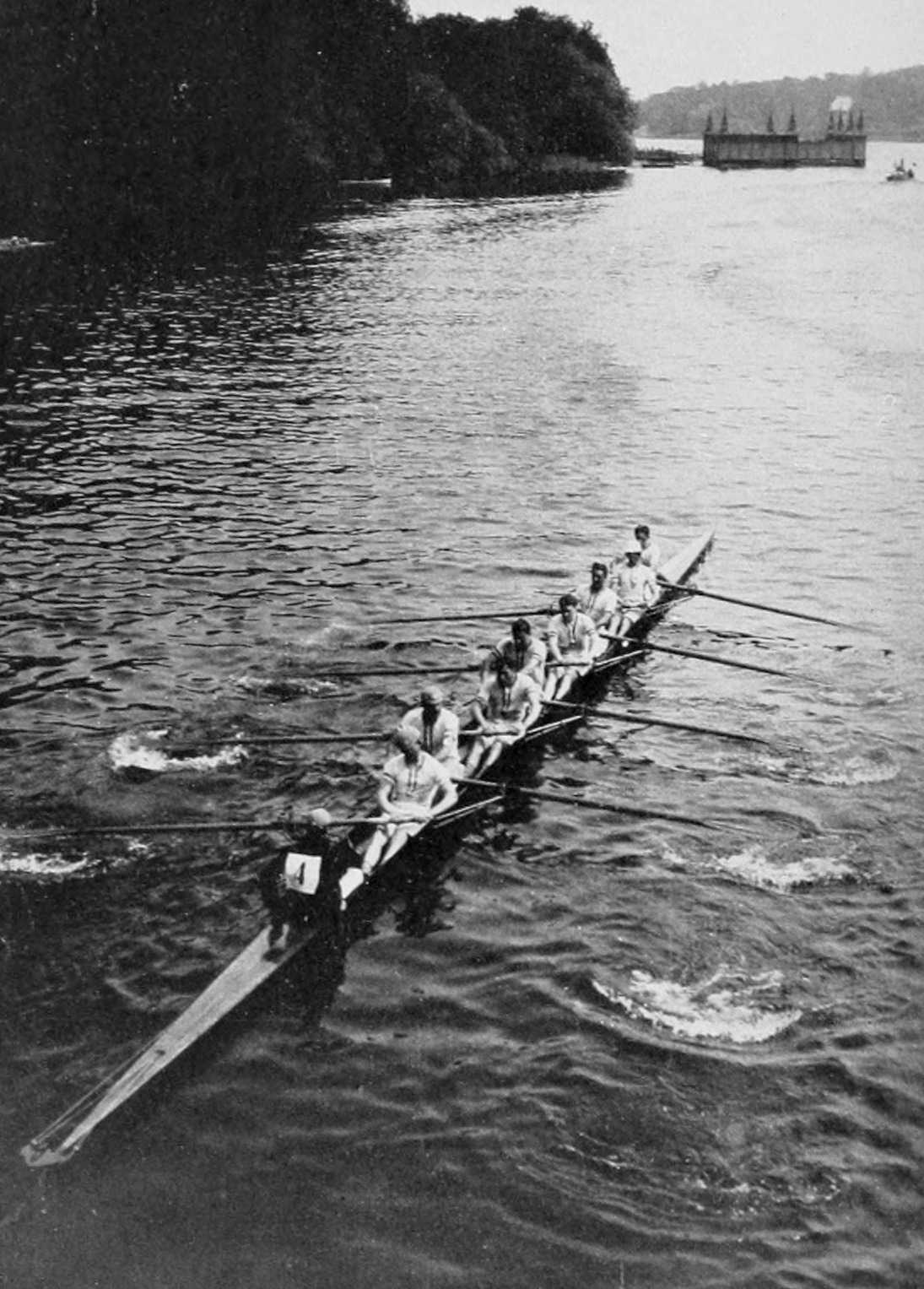 The British eights of the Leander Club at the 1912 Summer Olympics